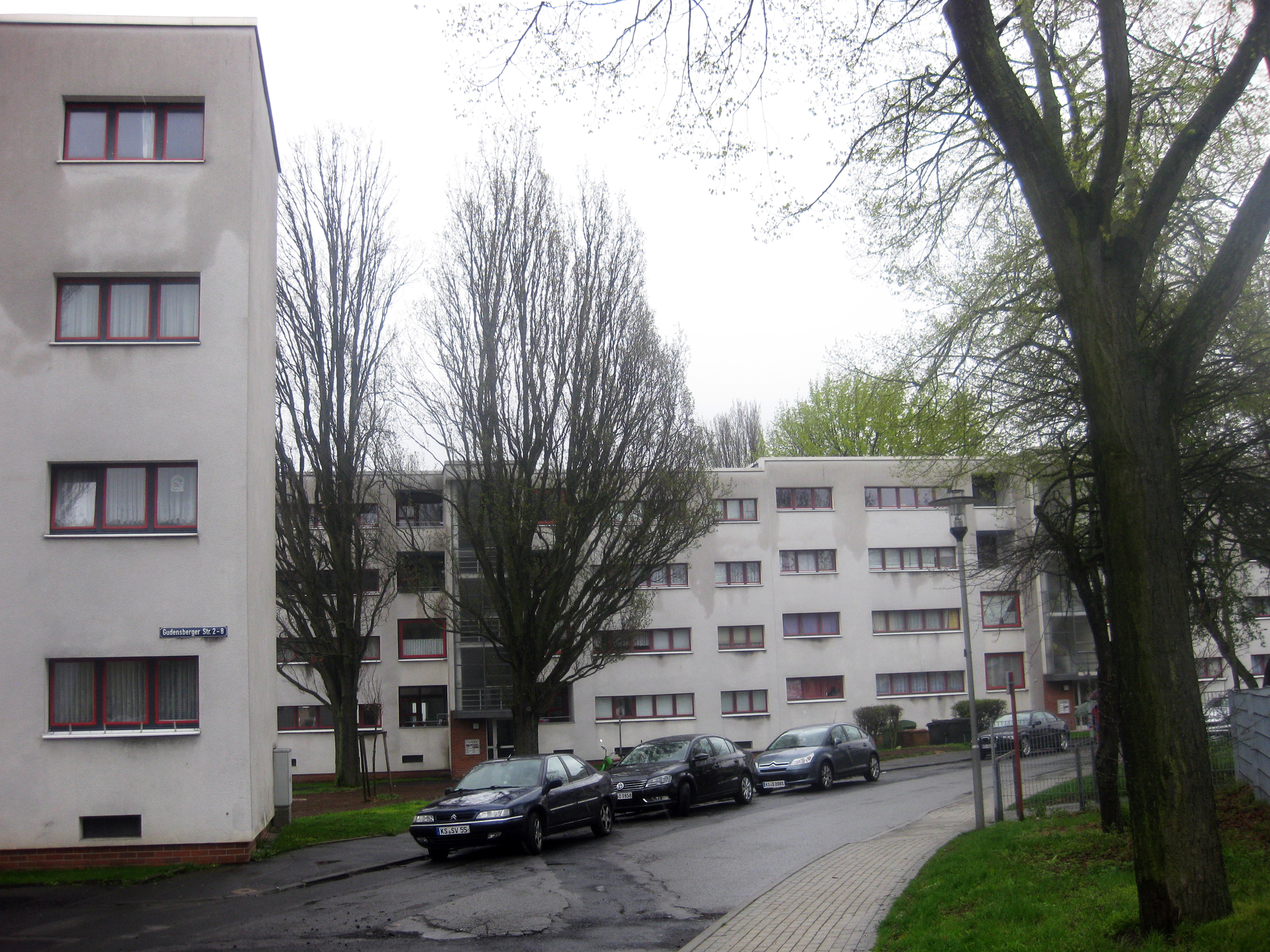 Rothenberg estate in Kassel